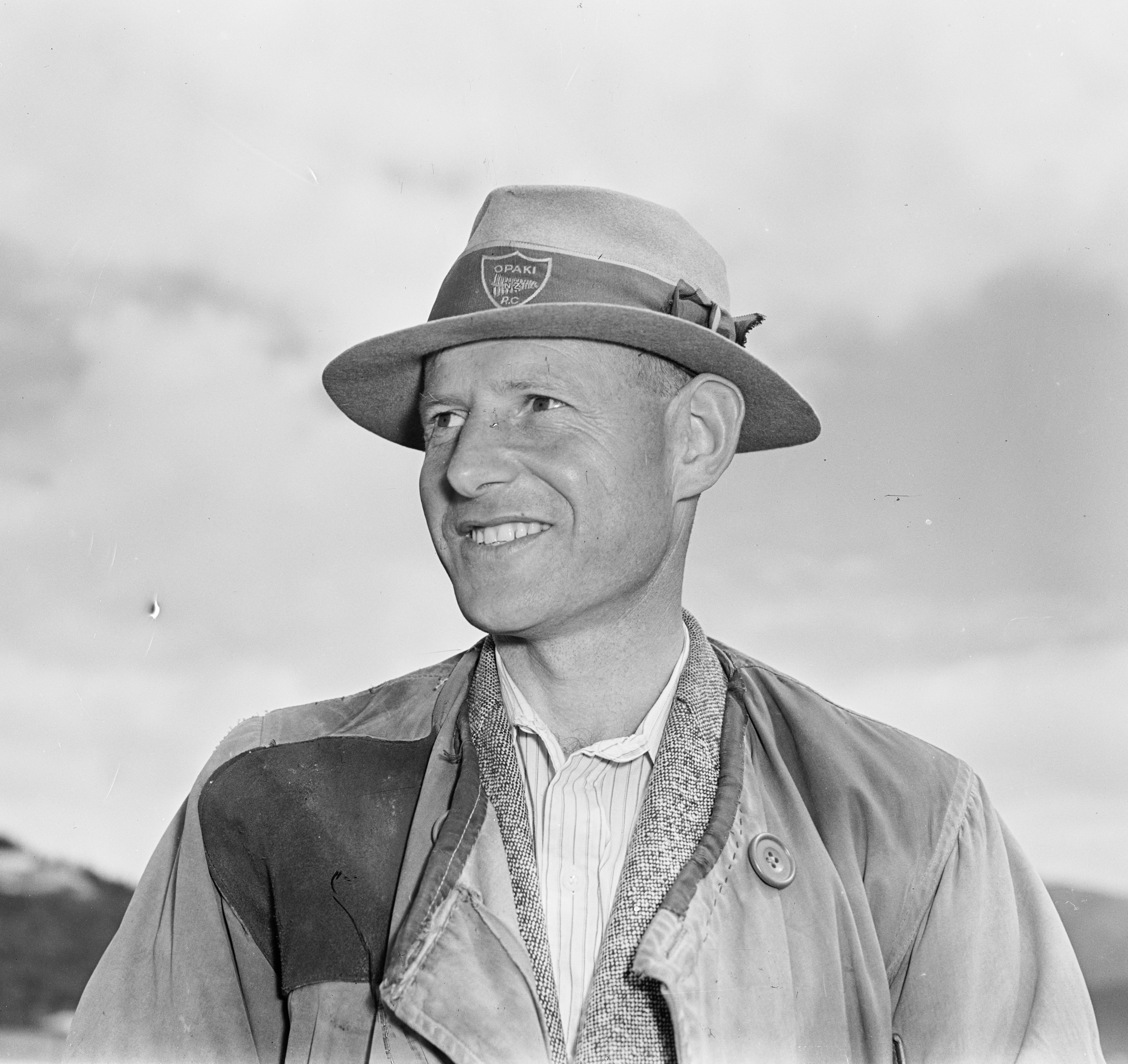 Haddon V Donald photographed circa 14 March 1951 by an Evening Post photographer.